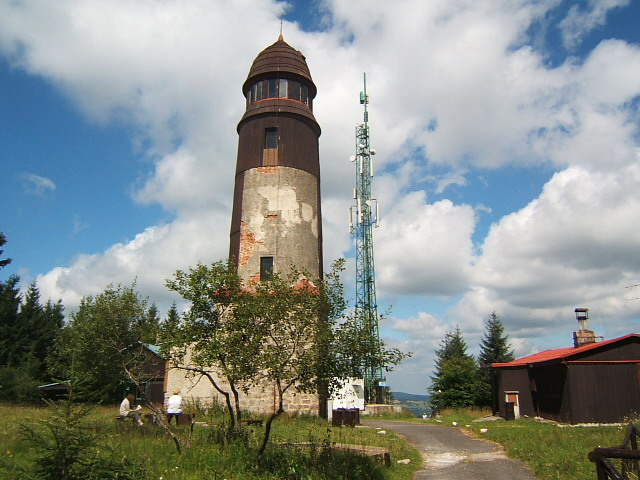 Blatensky vrch near Horní Blatna, Ore Mountains, CZ